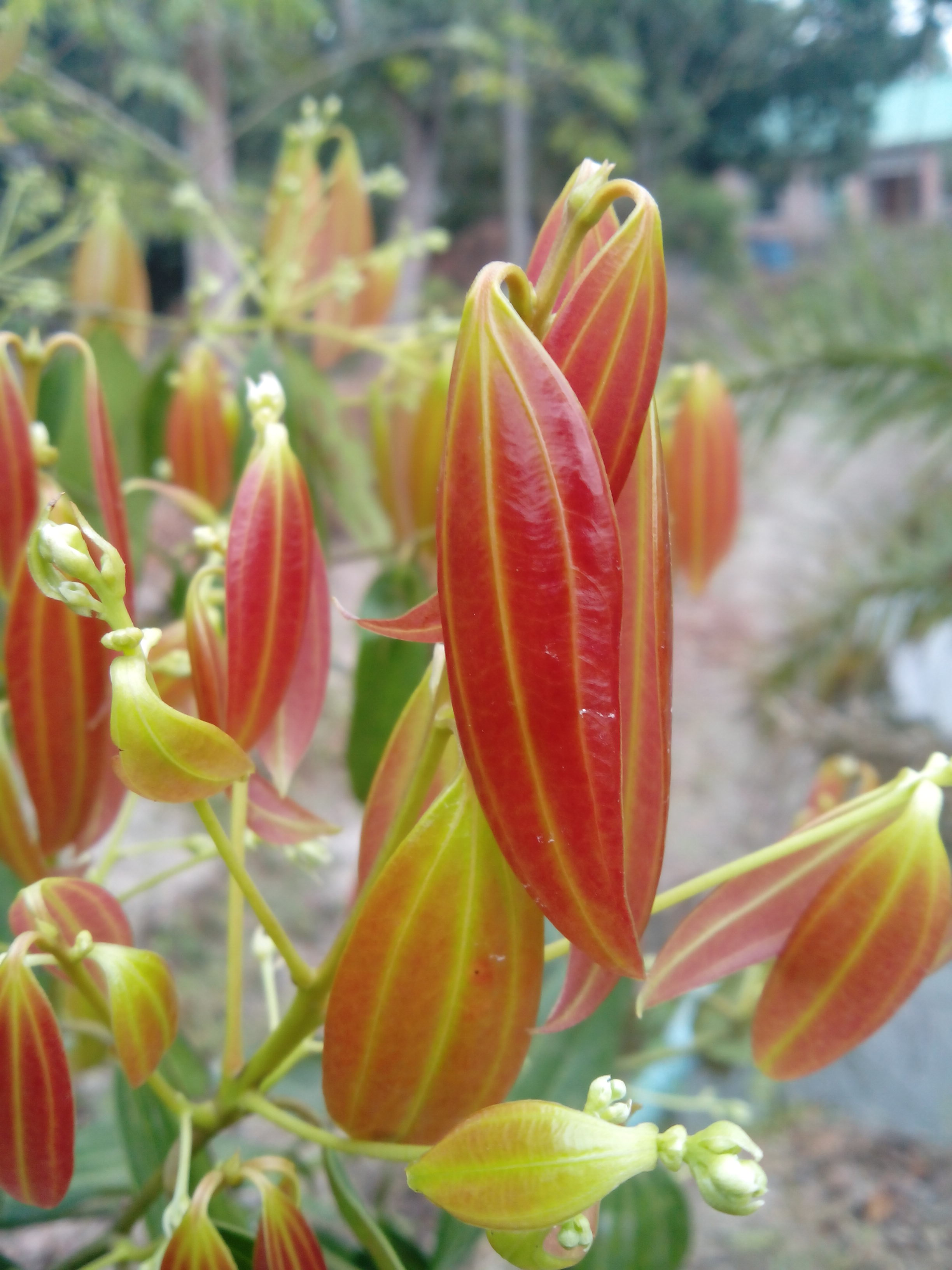 Cinnamomum tamala